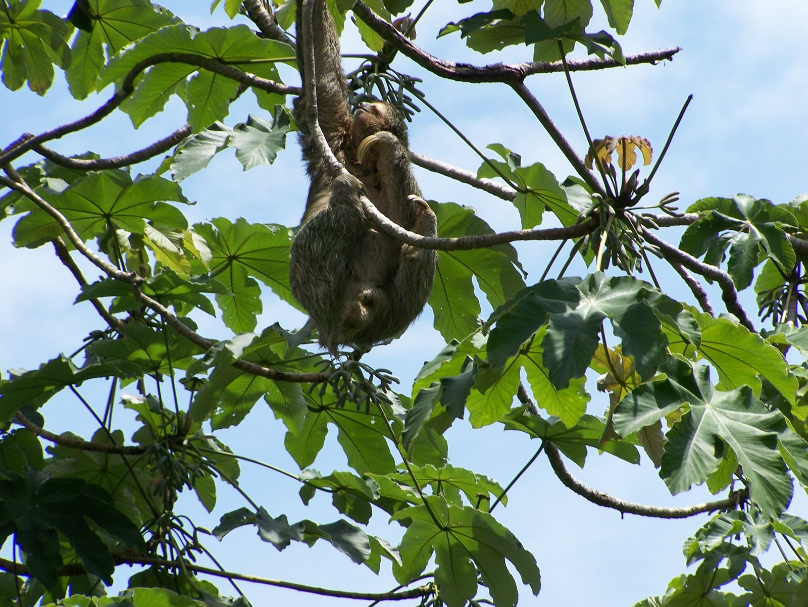 Three-toed sloth on Cecropia insignis in Manuel Antonio National Park, Costa Rica